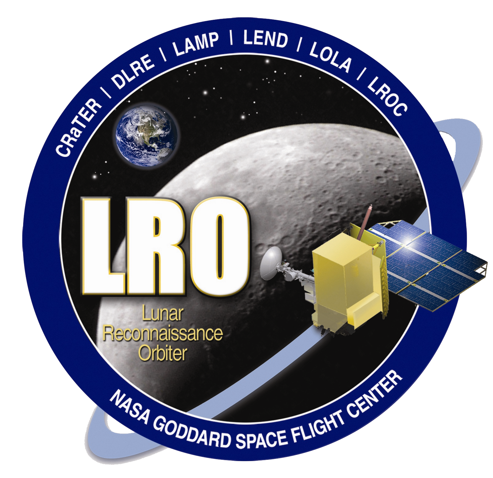 The Lunar Reconnaissance Orbiter (LRO) is the first mission in NASA's Vision for Space Exploration, a plan to return to the moon and then to travel to Mars and beyond. The LRO objectives are to finding safe landing sites, locate potential resources, characterize the radiation environment, and demonstrate new technology. The spacecraft will be placed in low polar orbit (50 km) for a 1-year mission under NASA's Exploration Systems Mission Directorate. LRO will return global data, such as day-night temperature maps, a global geodetic grid, high resolution color imaging and the moon's UV albedo. However there is particular emphasis on the polar regions of the moon where continuous access to solar illumination may be possible and the prospect of water in the permanently shadowed regions at the poles may exist. Although the objectives of LRO are explorative in nature, the payload includes instruments with considerable heritage from previous planetary science missions, enabling transition, after one year, to a science phase under NASA's Science Mission Directorate. For more information, see